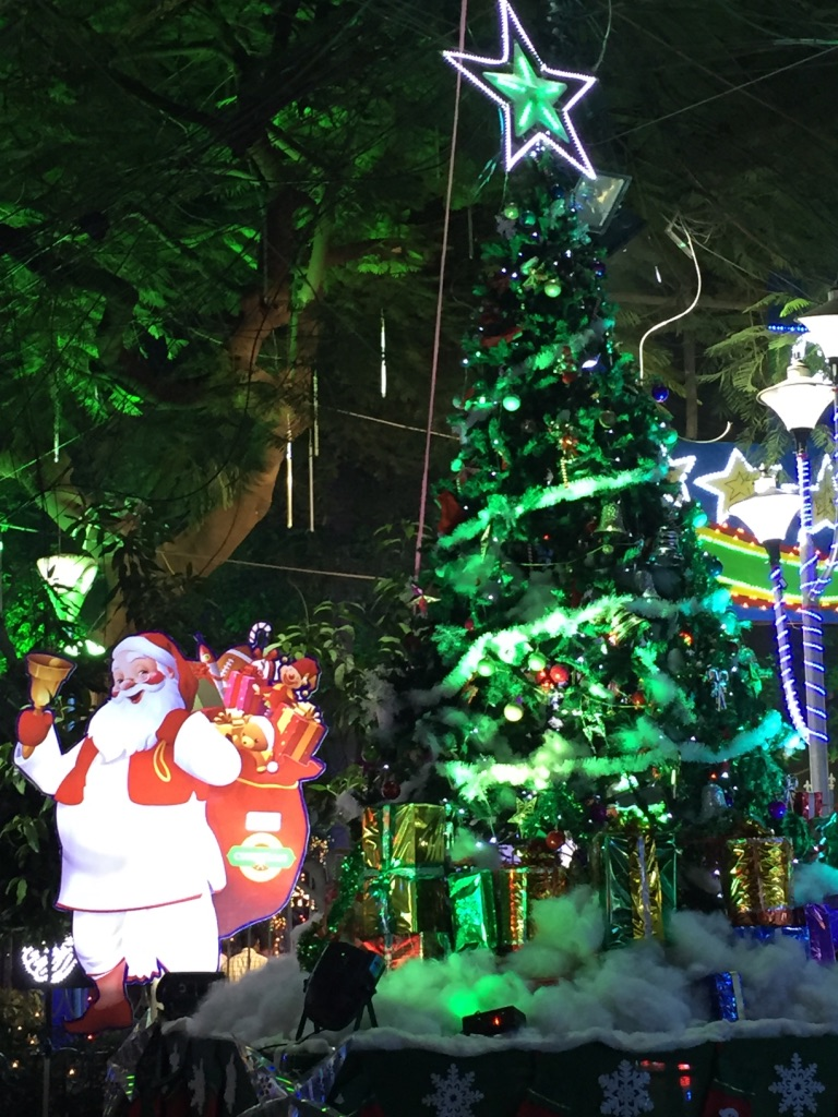 Christmas Tree with Santa Claus.